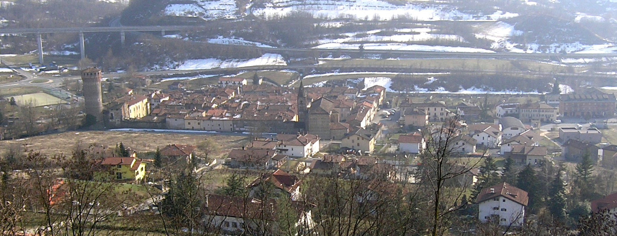 Landscape of Priero (Italy)